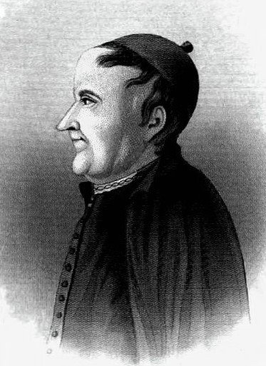 was a Salvadoran priest and doctor known as El Padre de la Patria Salvadoreña (The Father of the Salvadoran Fatherland)